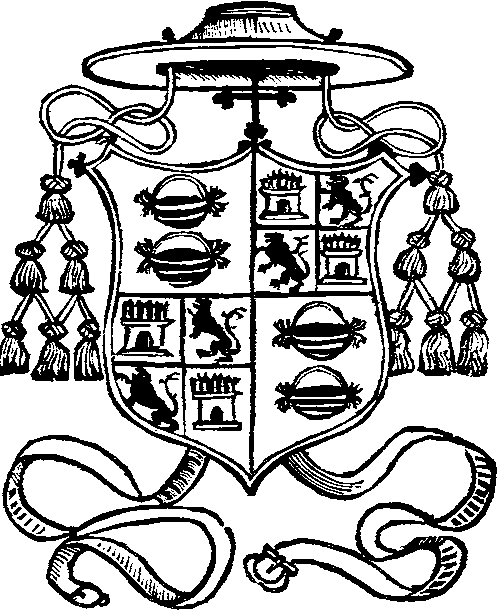 Shield of spanish bishop Alfonso Manrique Lara